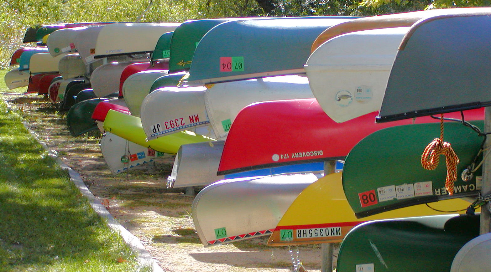 Taken by William Wesen 09/14/2006